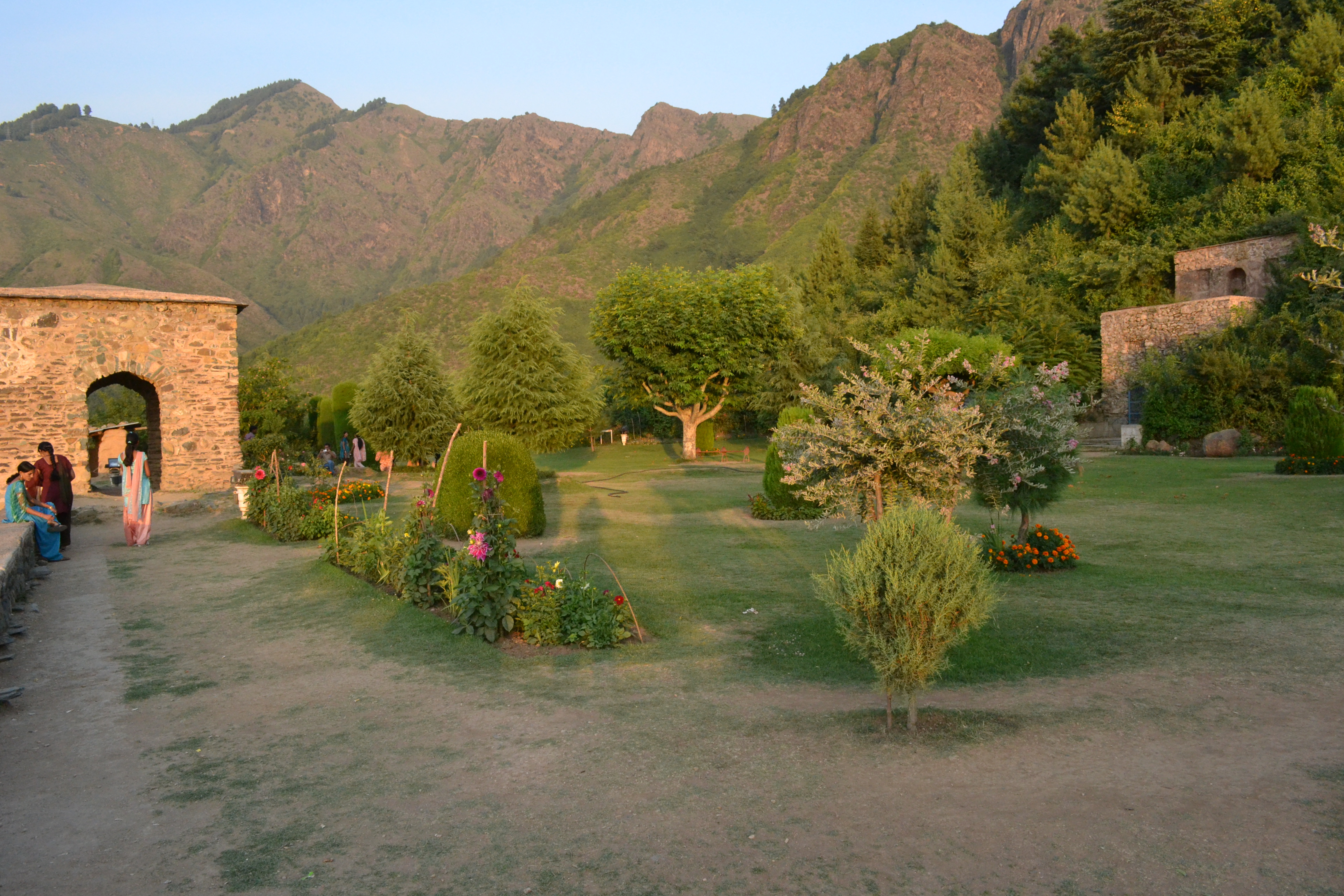 Group of arched terraces / structural complex